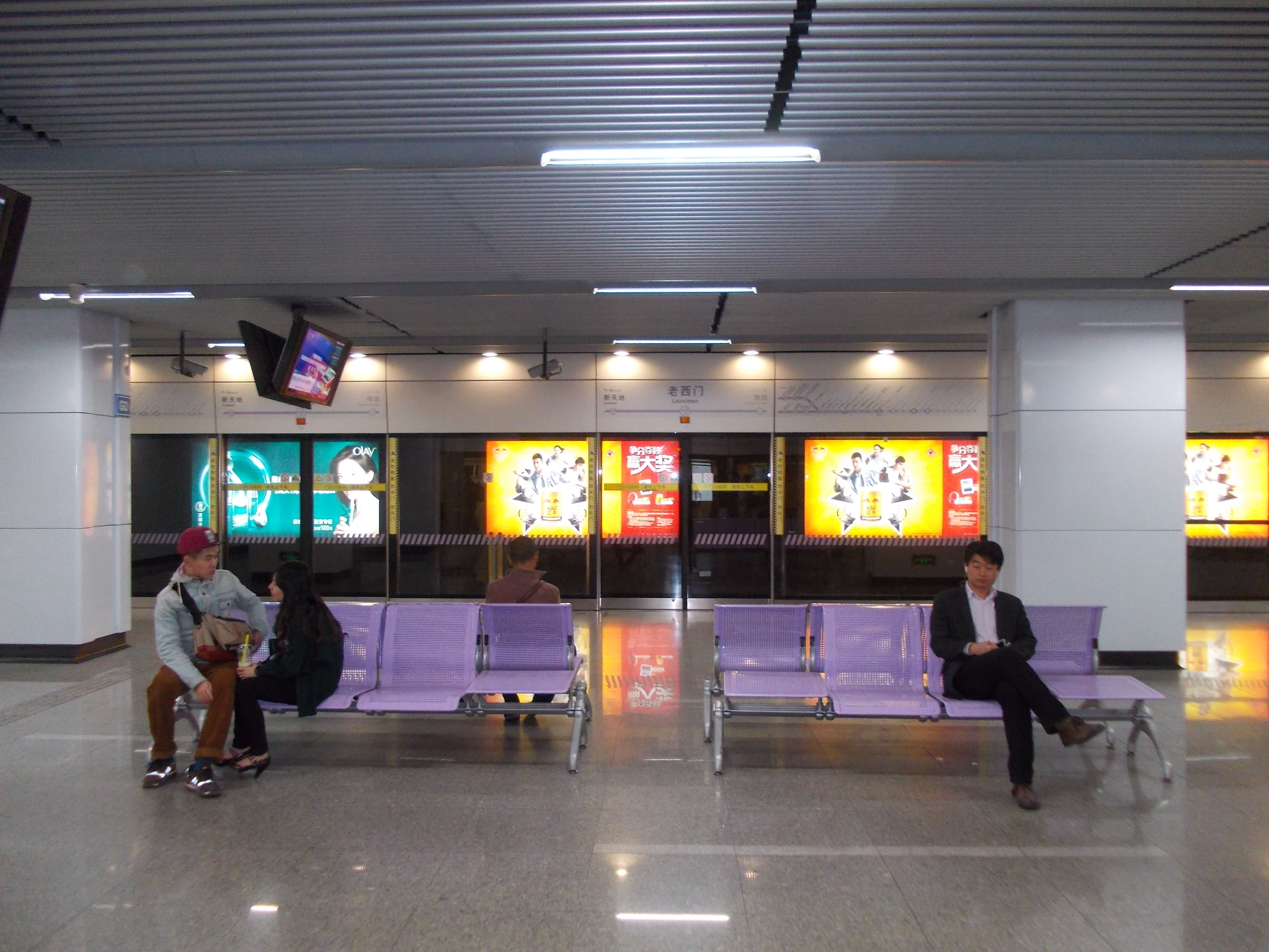 Shanghai Metro - Line 10 - Laoximen